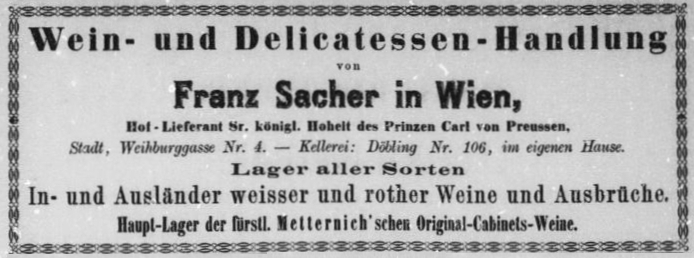 "Apollo" soap and candles advertisement.